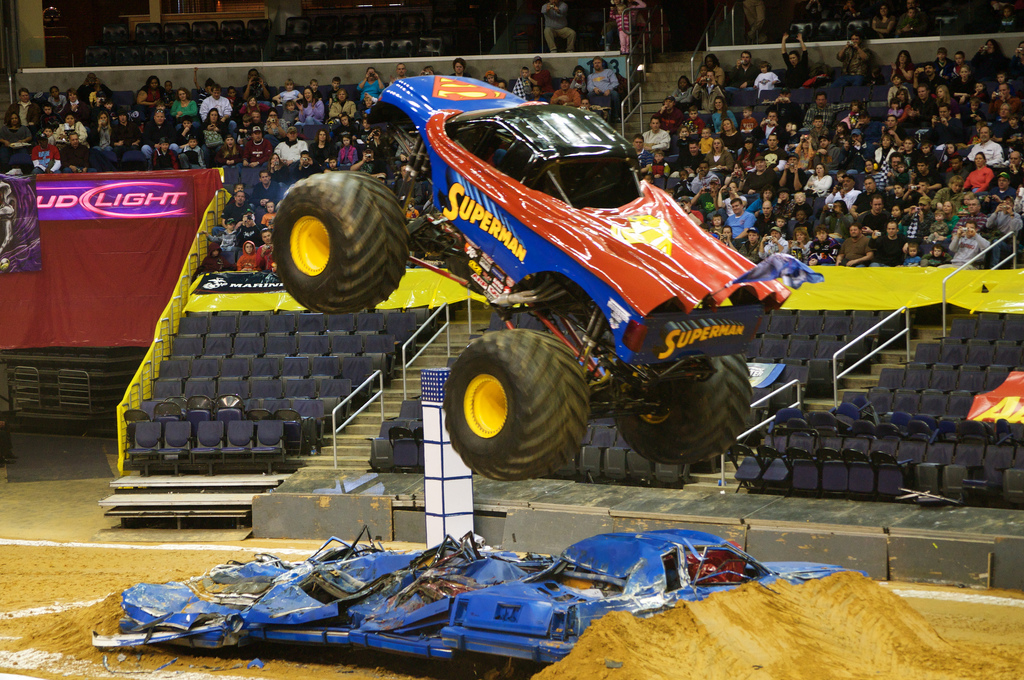 Superman up and away at the Monster Jam 1-24-2009